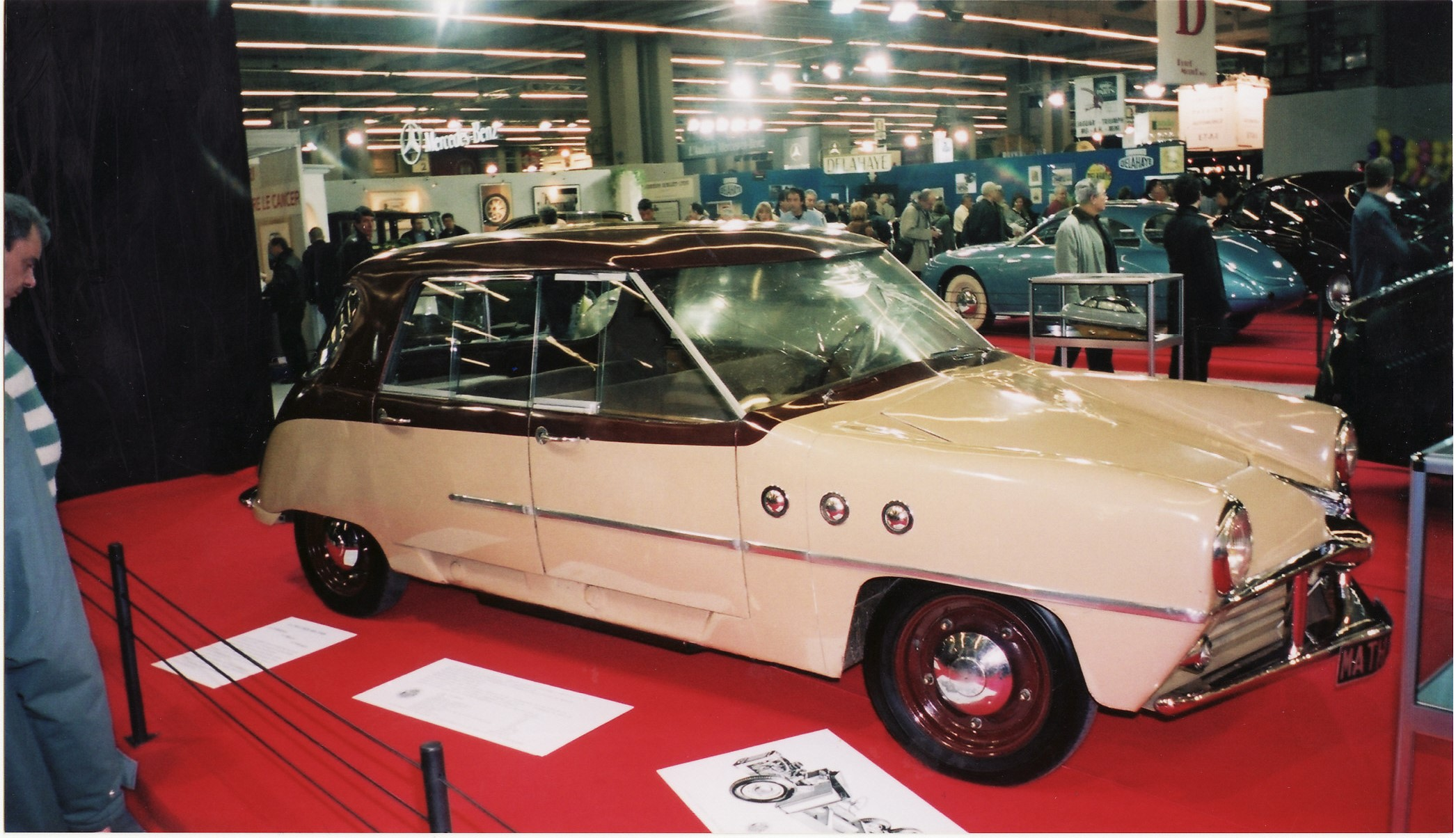 Bizarre. Engineered as a 6-seater with a Flat-6 2.8 litre engine. Appears to have no front pillars! Spotted at Retromobile 2005